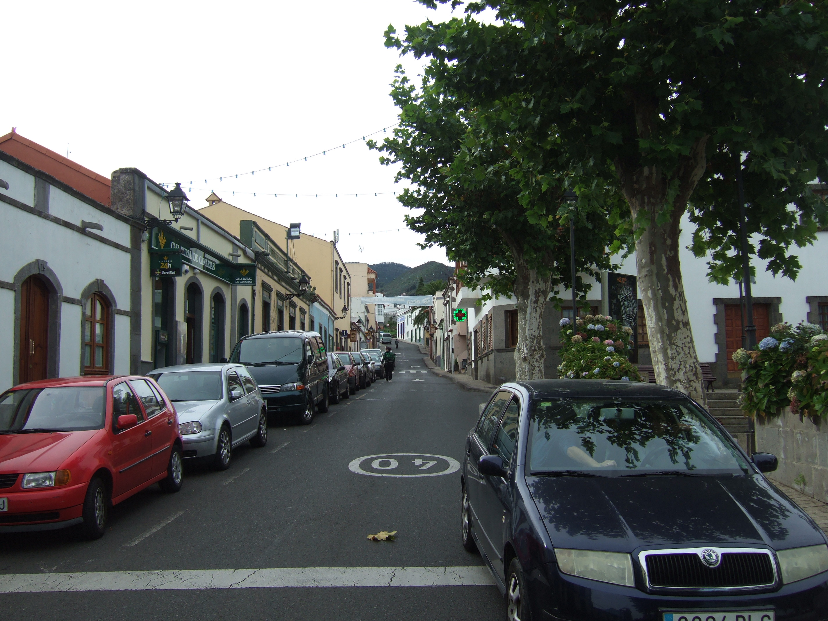 Mainstreet of the village Valleseco, Gran Canaria